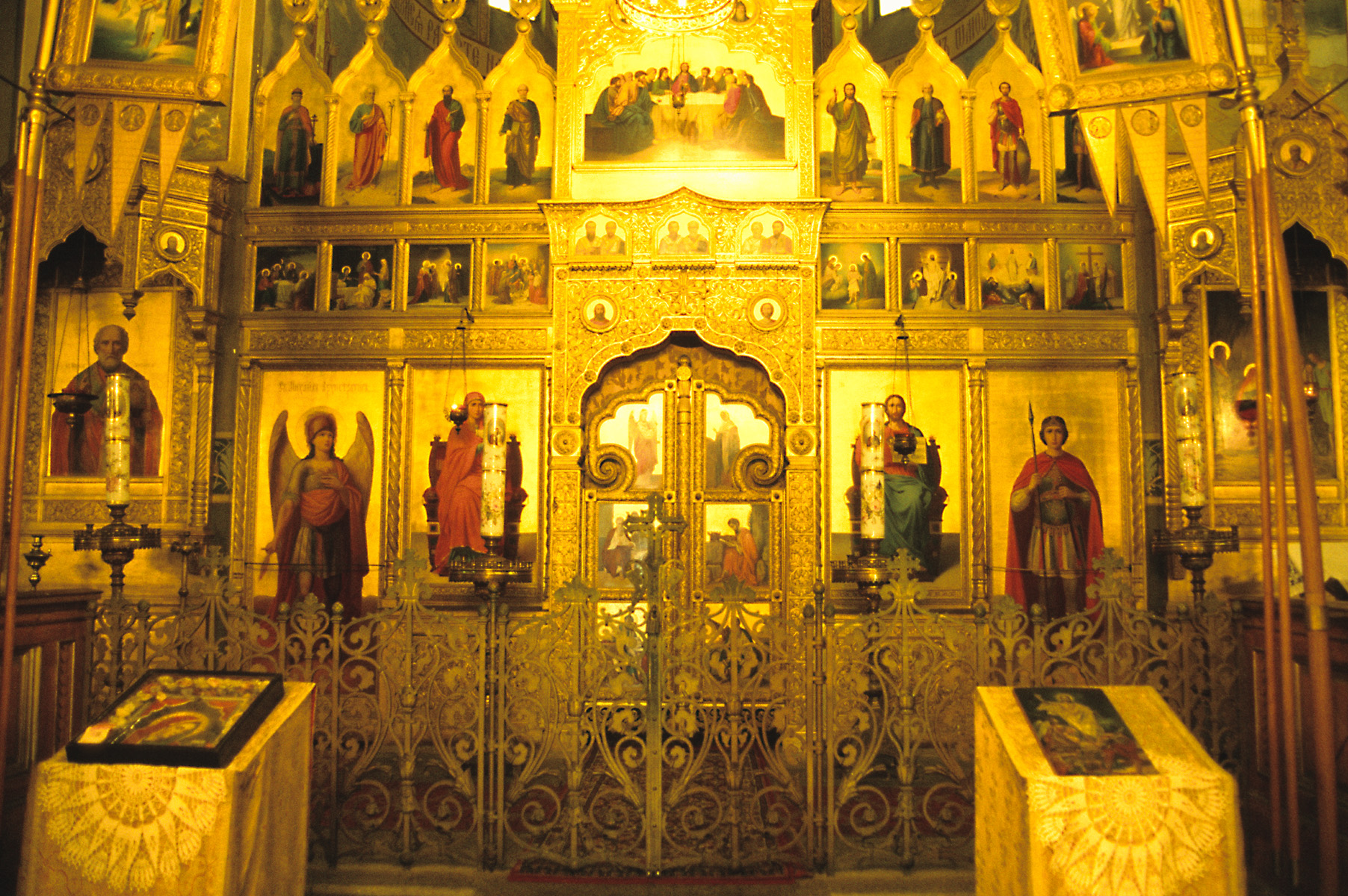 Altar in Shipka church, Bulgaria